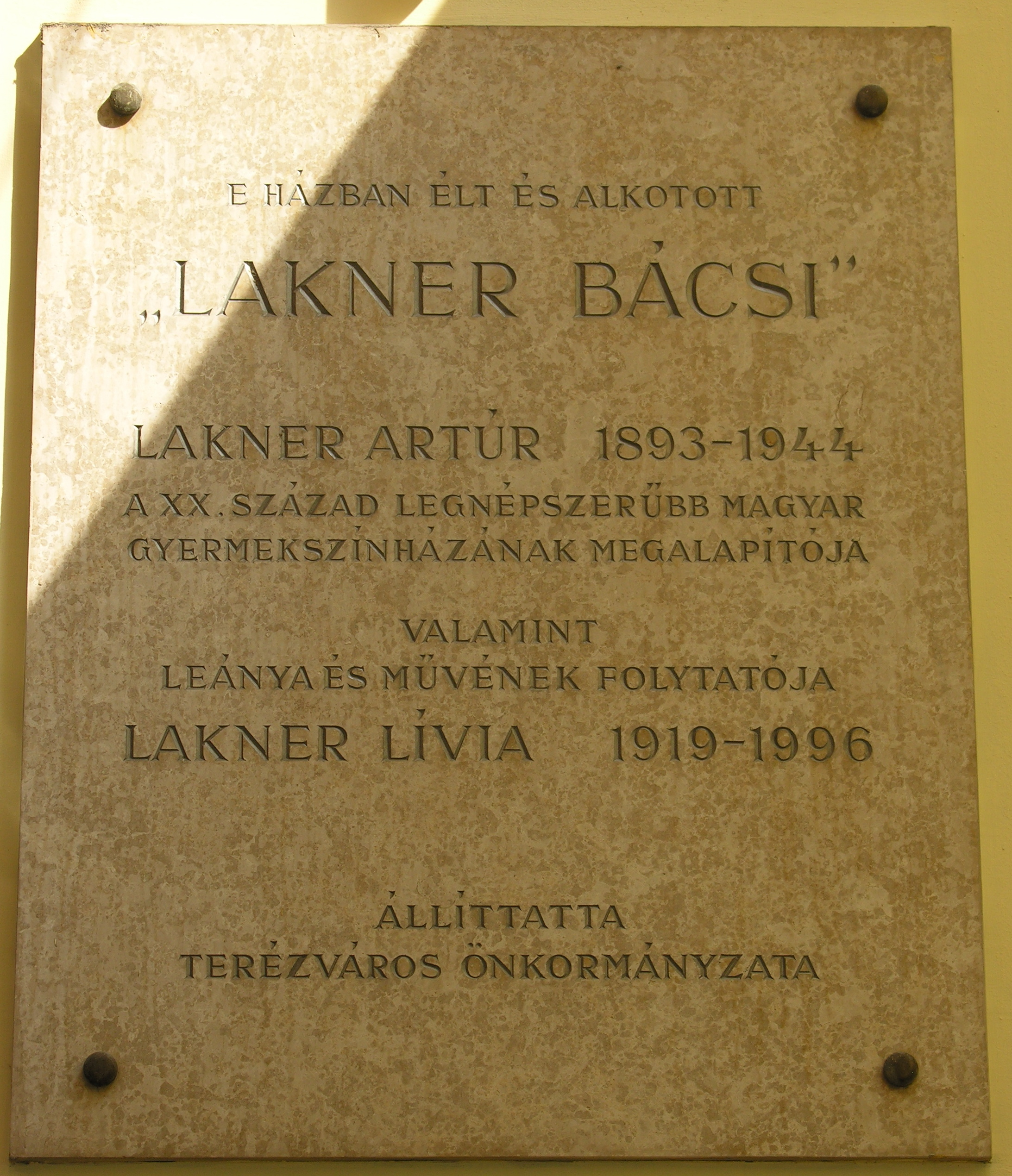 Artúr Lakner and Lívia Lakner commemorative plaque in Budapest District VI, Liszt Ferenc Square No 10